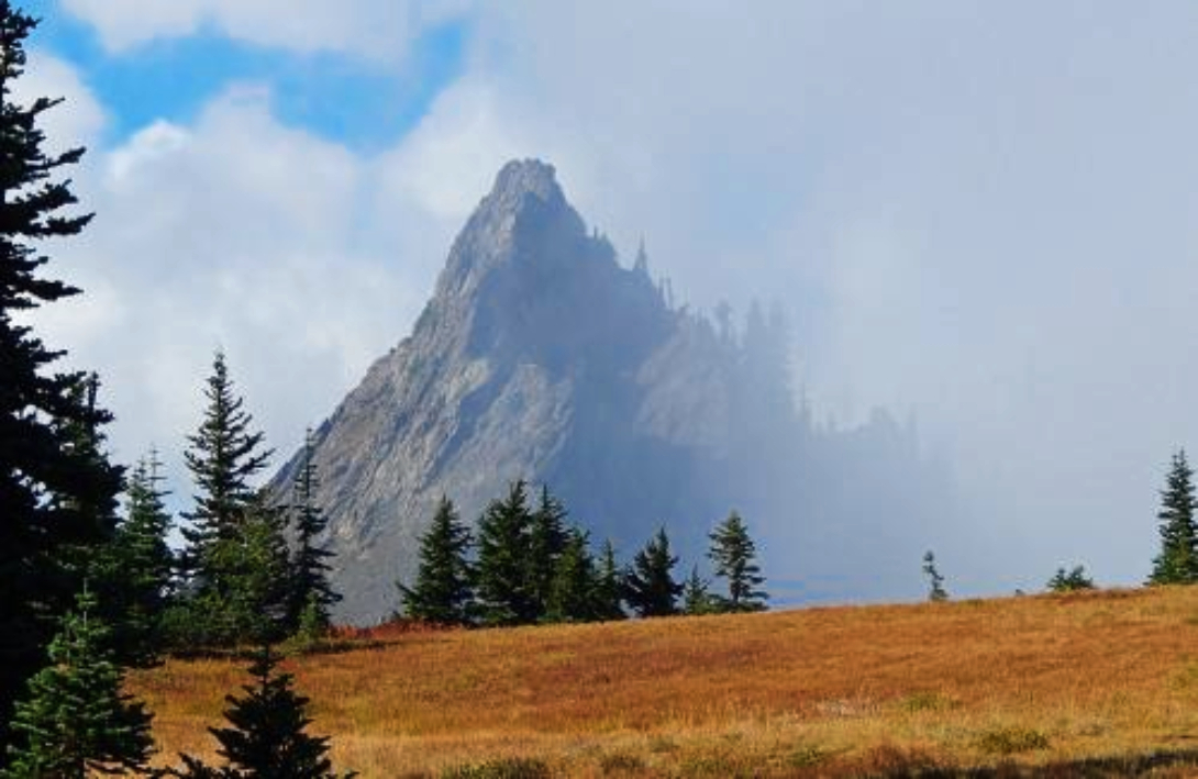 Steeple Rock seen from Point 5288 along Obstruction Point Road on Hurricane Ridge, Olympic National Park, WA.